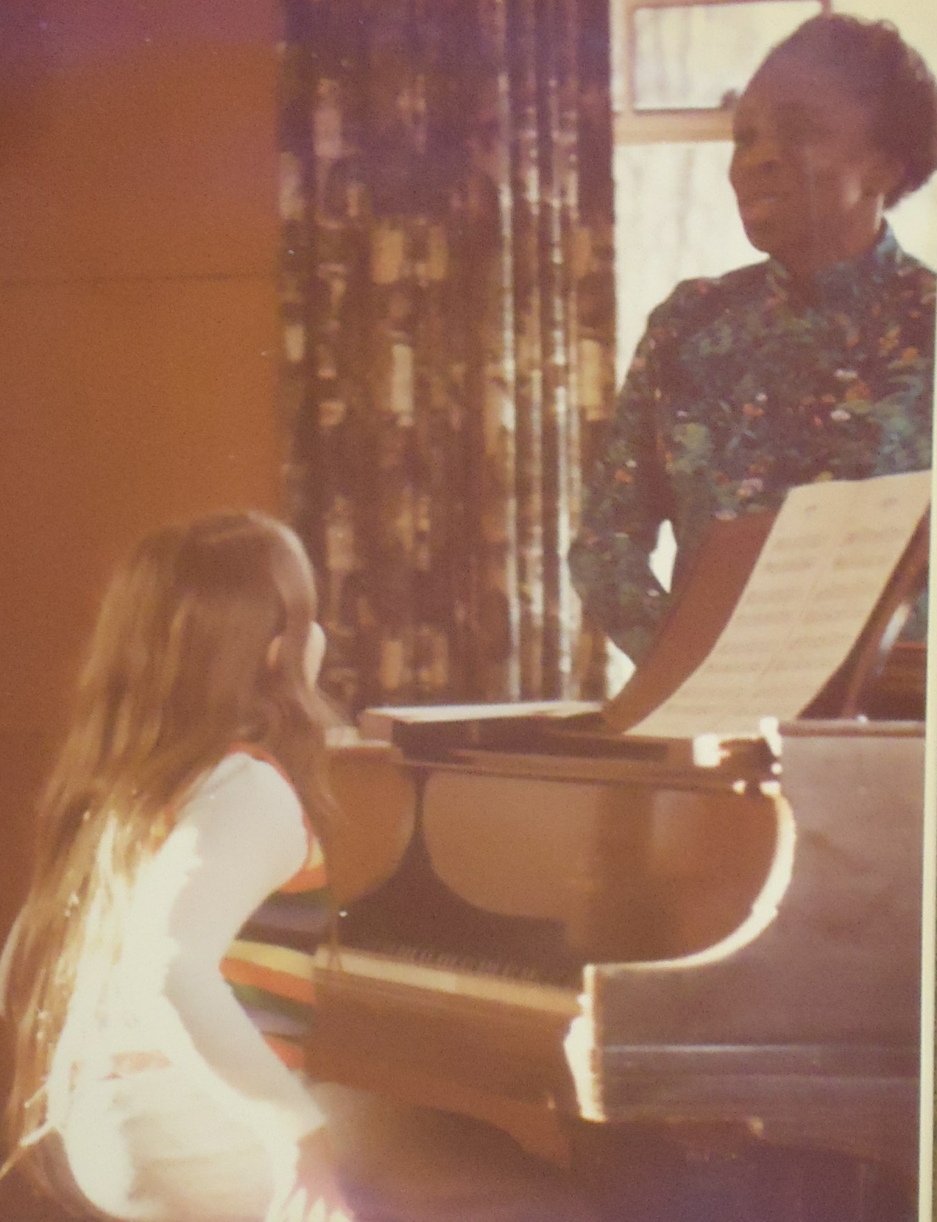 Capitola Dickerson teaching a young girl piano.